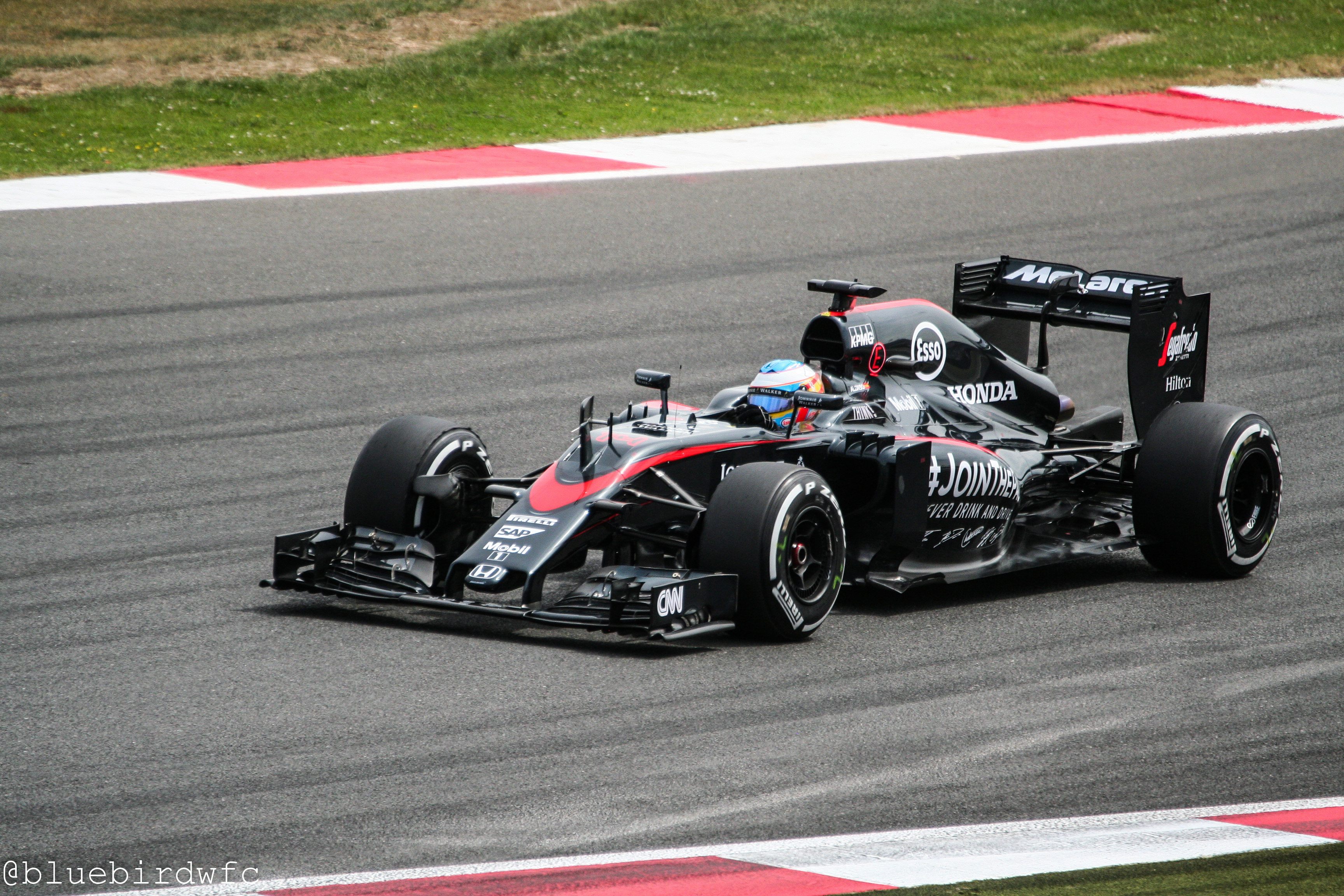 Fernando Alonso during 2015 British Grand Prix.